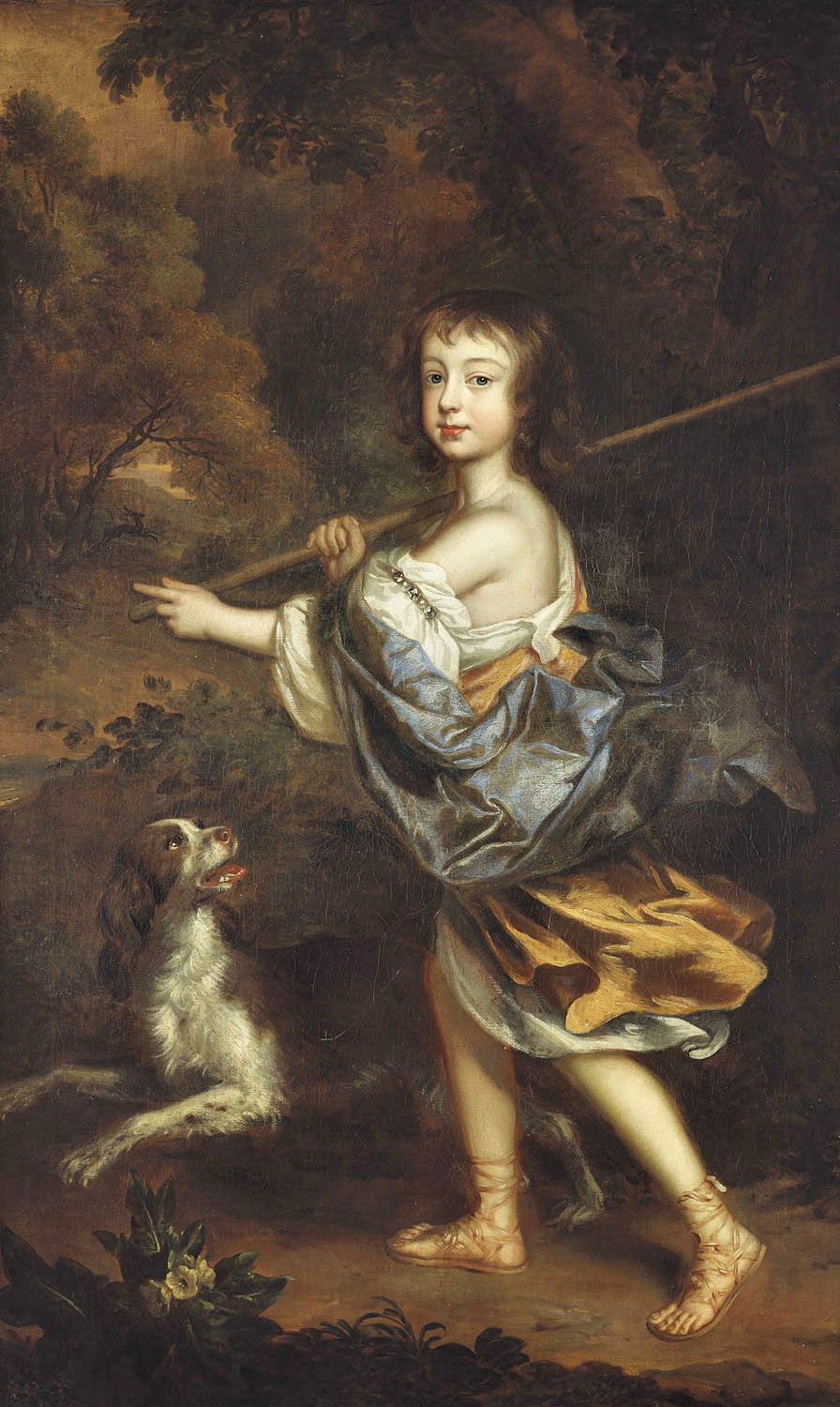 Posthumous portrait of James Stuart, Duke of Cambridge (1663-1667)